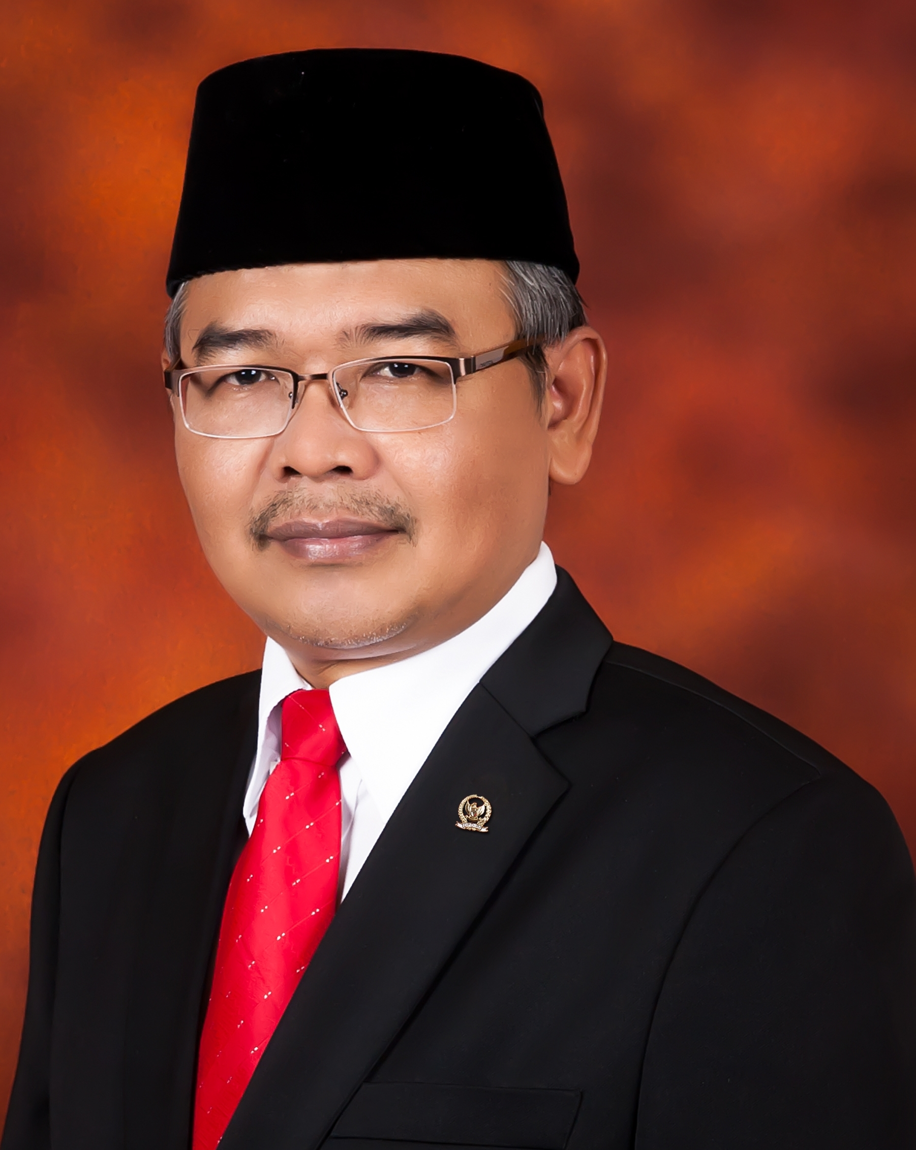 Mohammad Saleh as Member of Regional Representative Council